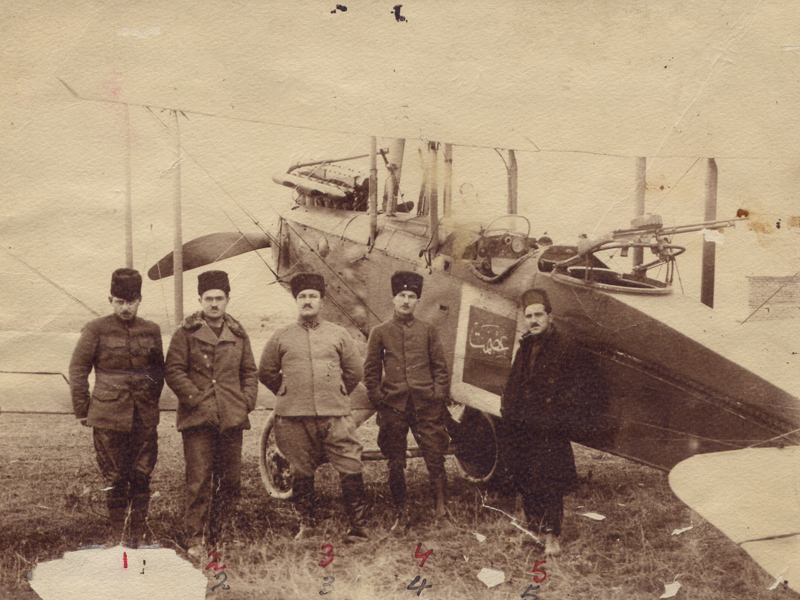 De Havilland DH.9 "Ismet"